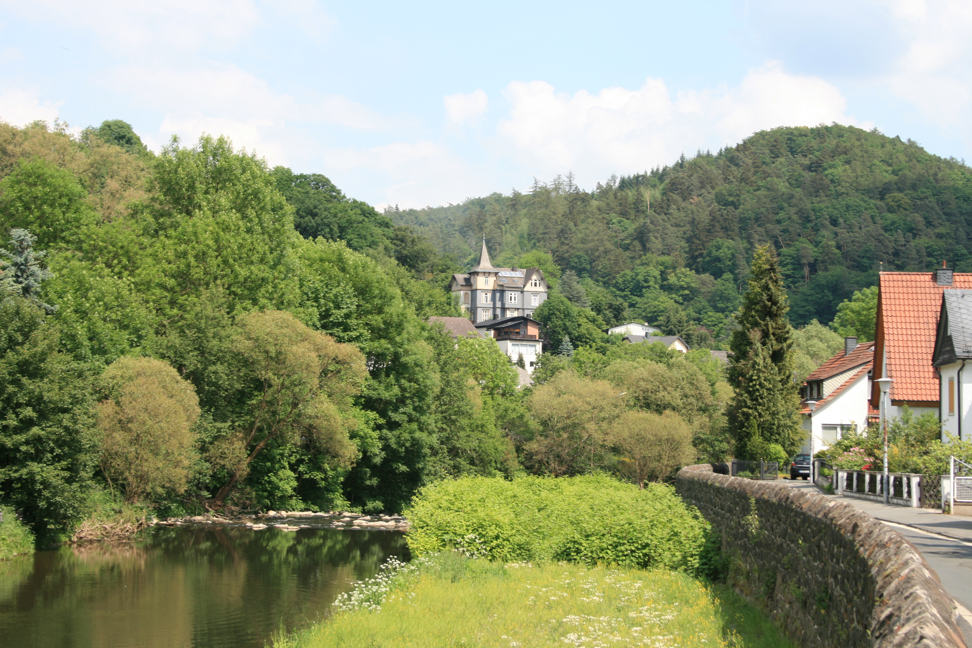 Germany, Hesse, Biedenkopf/Lahn: Lahn river, flood walls, houses in "Sachsenhausen".